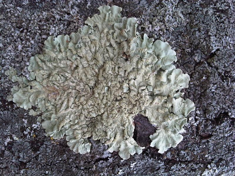 Unidentified Dirinaria sp. at the Kew Gardens, England.